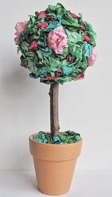 Tissue Paper Flower Topiary Instructions to make it can be found on Craft Jr. Tissue Paper Flower Topiary